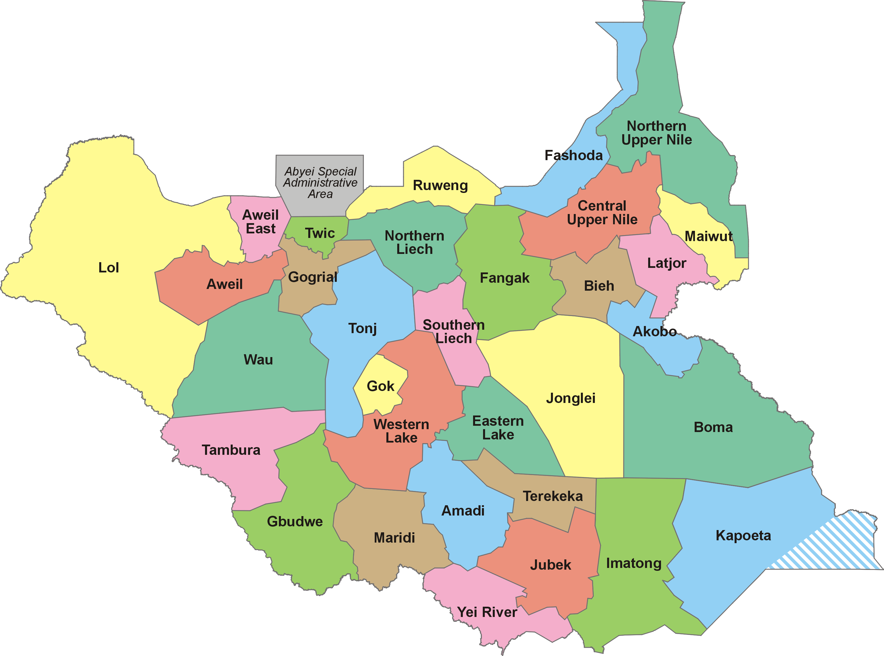 States of South Sudan as in 2017